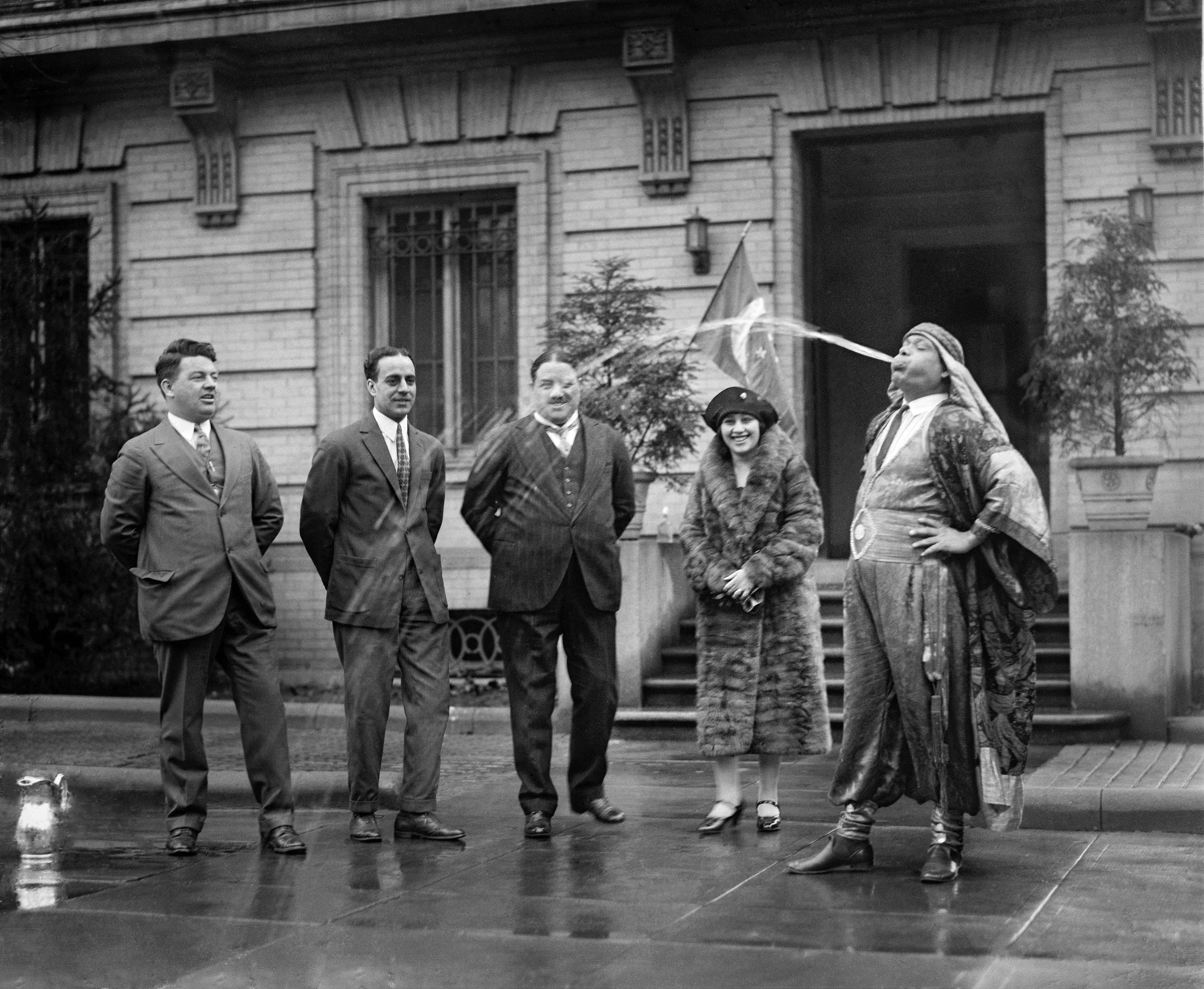 Vaudeville performer Hadji Ali demonstrating his skills of controlled regurgitation at Egyptian Legation, on March 27, 1926.